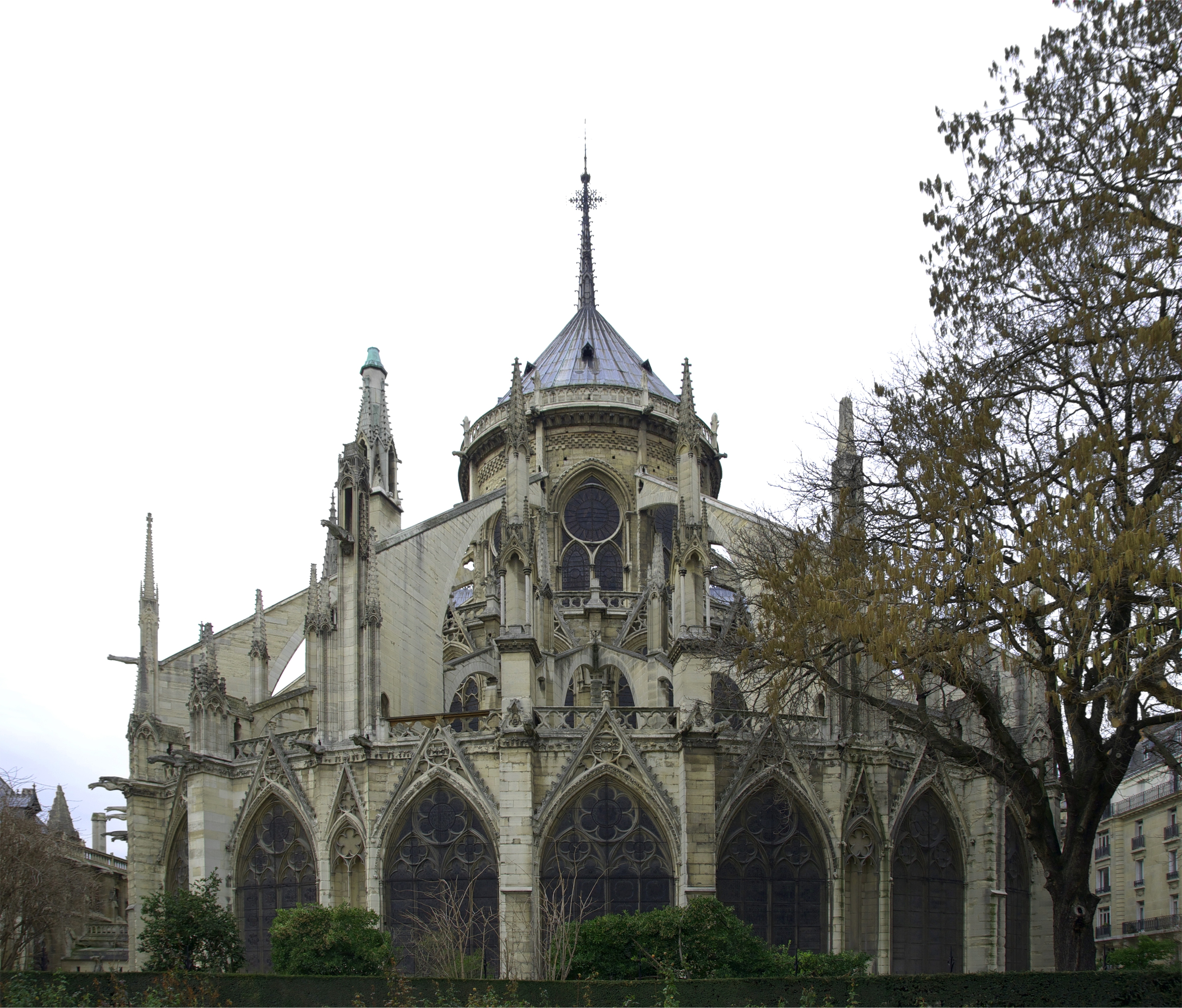 View of the exterior of the choir of Notre-Dame de Paris